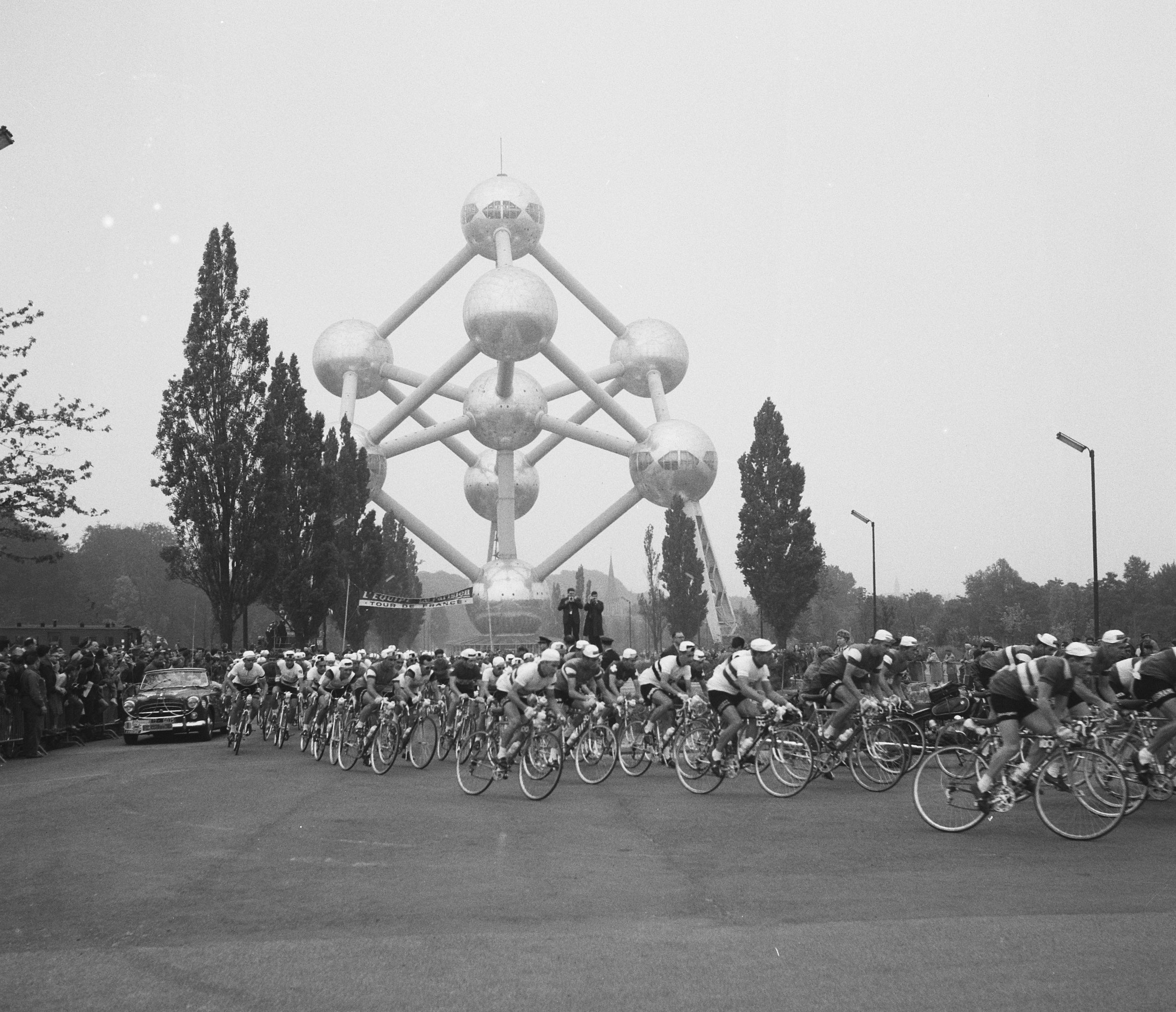 Cyclists Tour de France 1960 near Atomium, Brussels (Belgium).